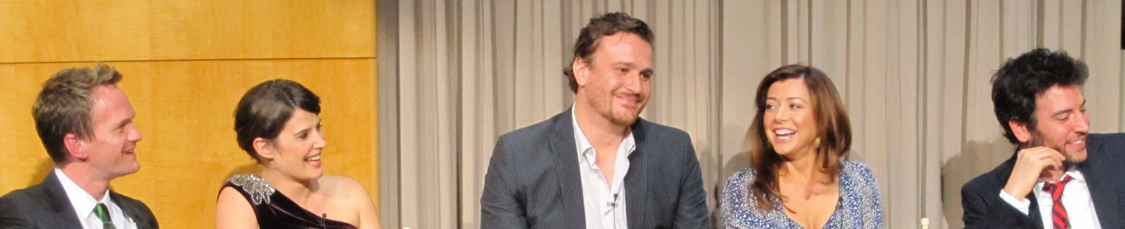 The cast of the US television show How I Met Your Mother at the 100th episode celebration at the Paley Centre. From left: Neil Patrick Harris, Cobie Smulders, Jason Segel, Alyson Hannigan and Josh Radnor.